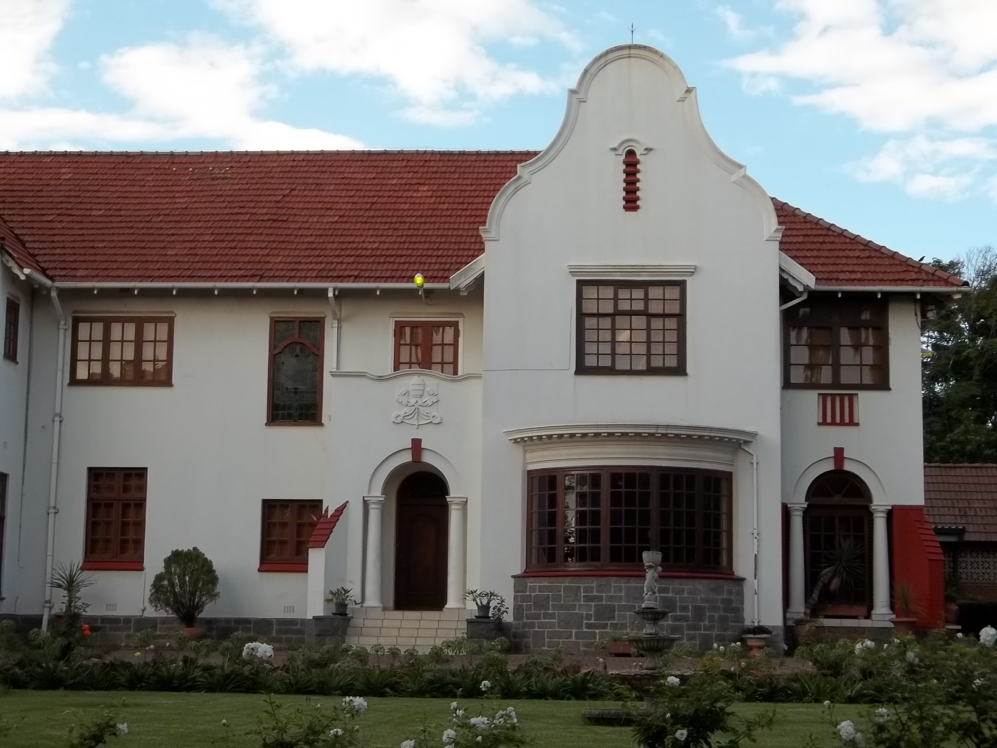 VA in ZA